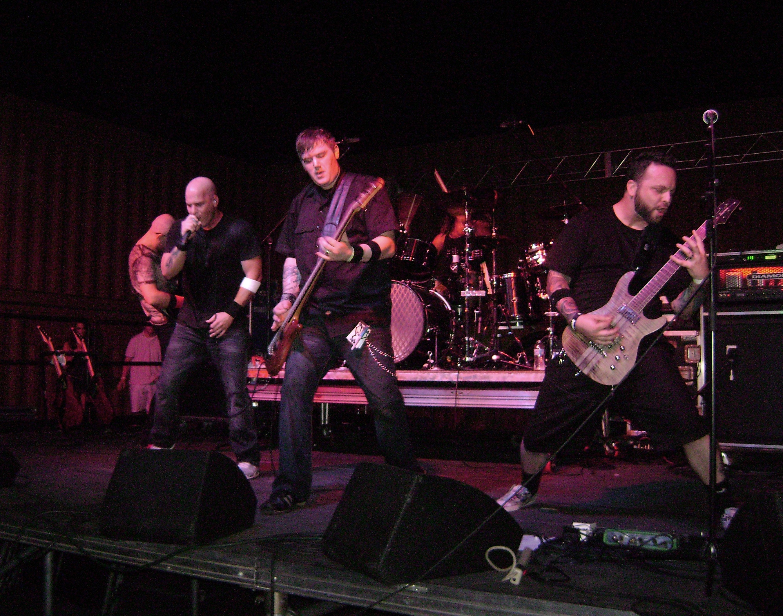 Evans Blue live in Tempe Arizona